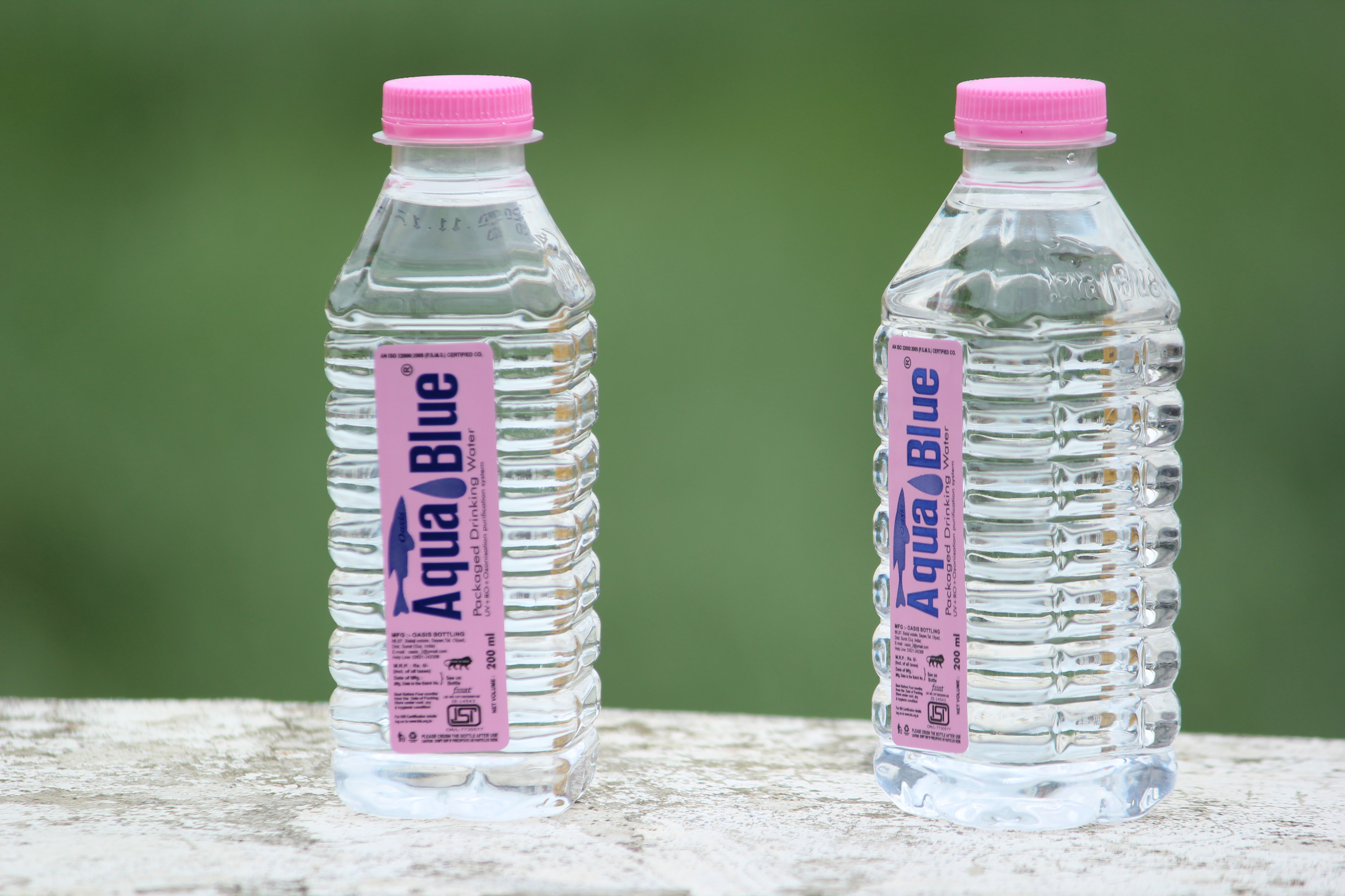 PET Bottled Water of Size 200ml